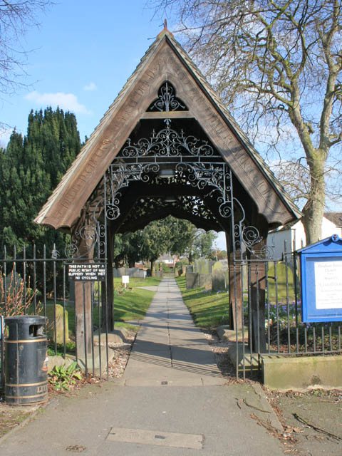 Lychgate of St Mary and All Saints' parish churchyard, Bingham, Nottinghamshire